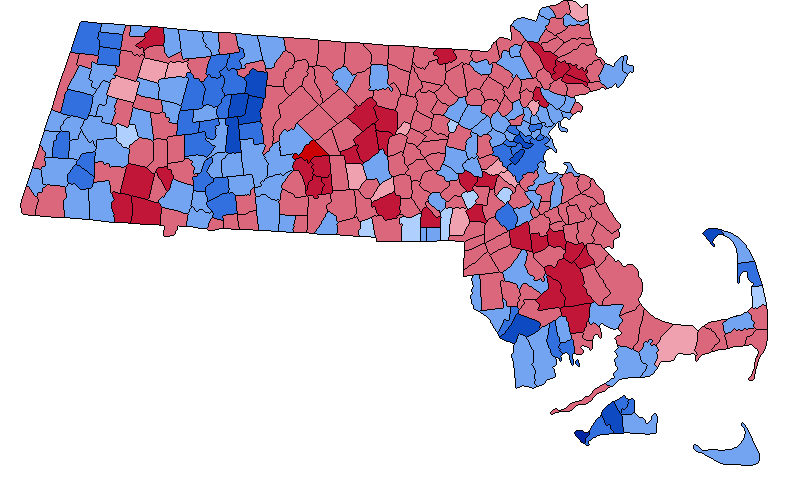 Massachusetts presidential election results by municipality, November 1988